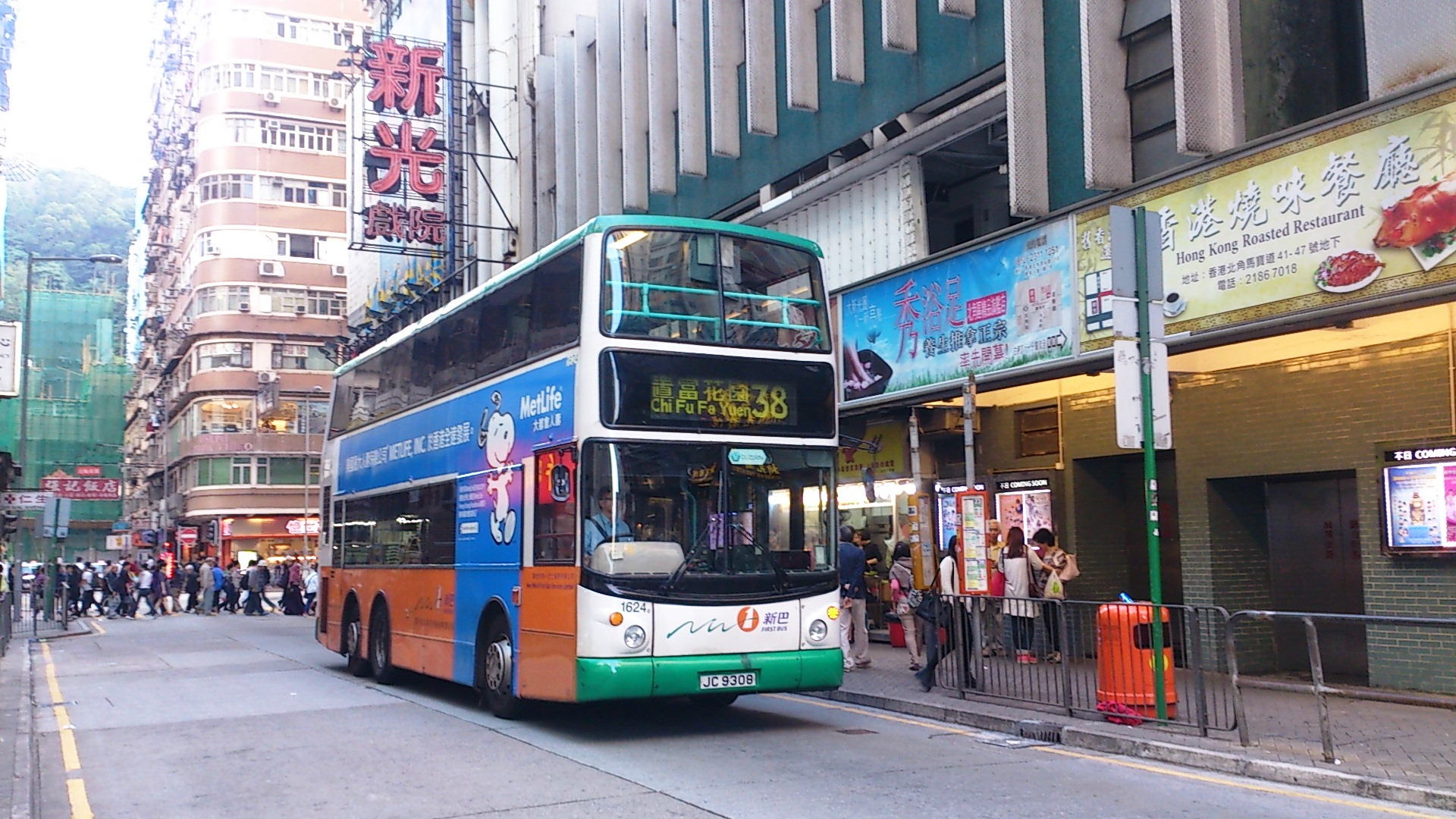 Shu Kuk Street near Sunbeam Theatre